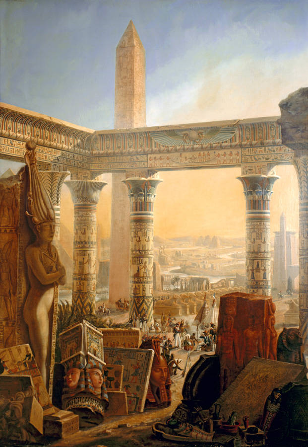 Frontispiece to The Description of Egypt, a book in the public domain for some time and published by the French government from 1809-1823.